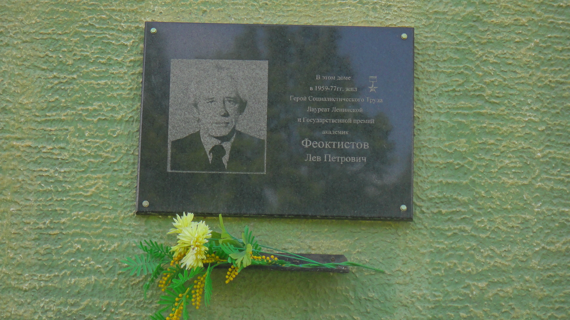 Мемориальная доска Феоктистову